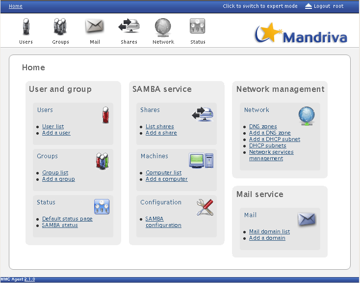 Mandriva-Directory-Server.png